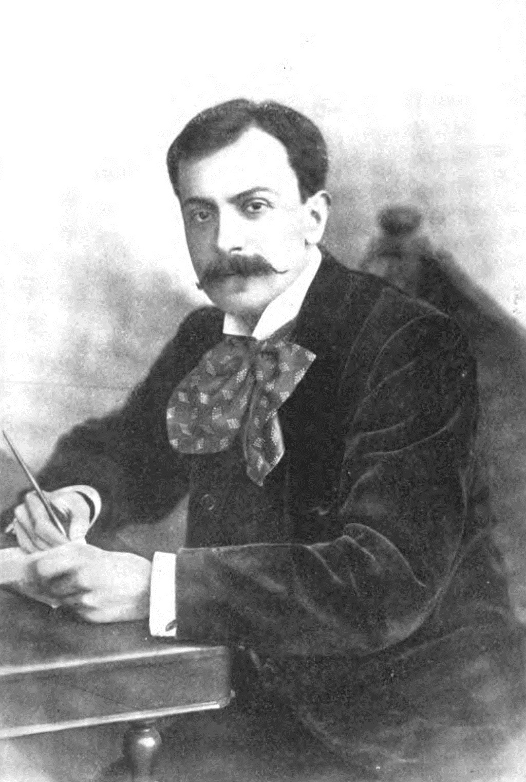 William Le Queux